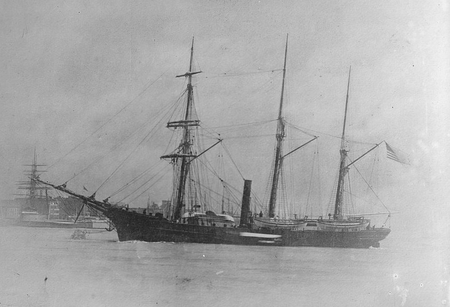 USS Tigress (1871) in New York cropped, LC-D4-21021, "between 1890 and 1901" Probably around 1873 because it has the caption "U.S. Steamer Tigress fitted out at the New York yard, to search for the Po..." "Po,,," is probably the Polaris This work is from the Detroit Publishing Co. collection at the Library of Congress. According to the library, there are no known copyright restrictions on the use of this work. Most of the images in this collection were published before 1923 and are therefore in the public domain in the United States. A few images were published after this date and may be restricted by copyright.